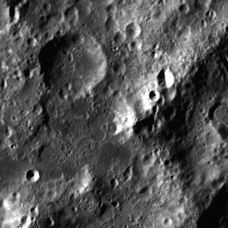 LROC . Coblentz is the featureless crater at upper left, located on mountainous terrain south of Tsiolkovskiy